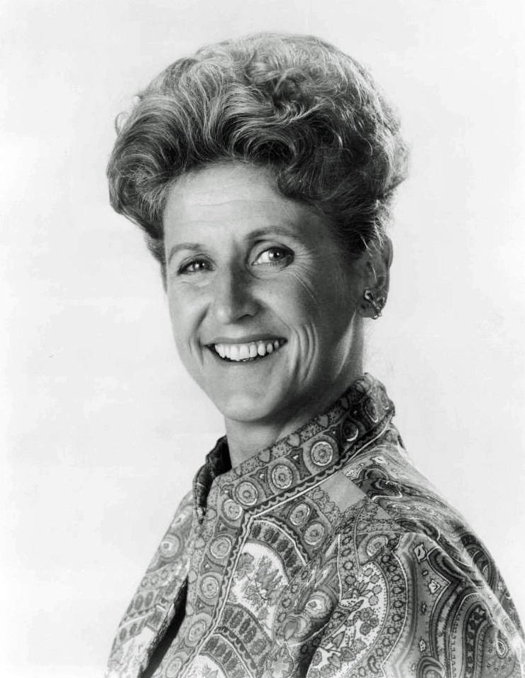 Publicity photo of American actress, Ann B. Davis, circa 1973.